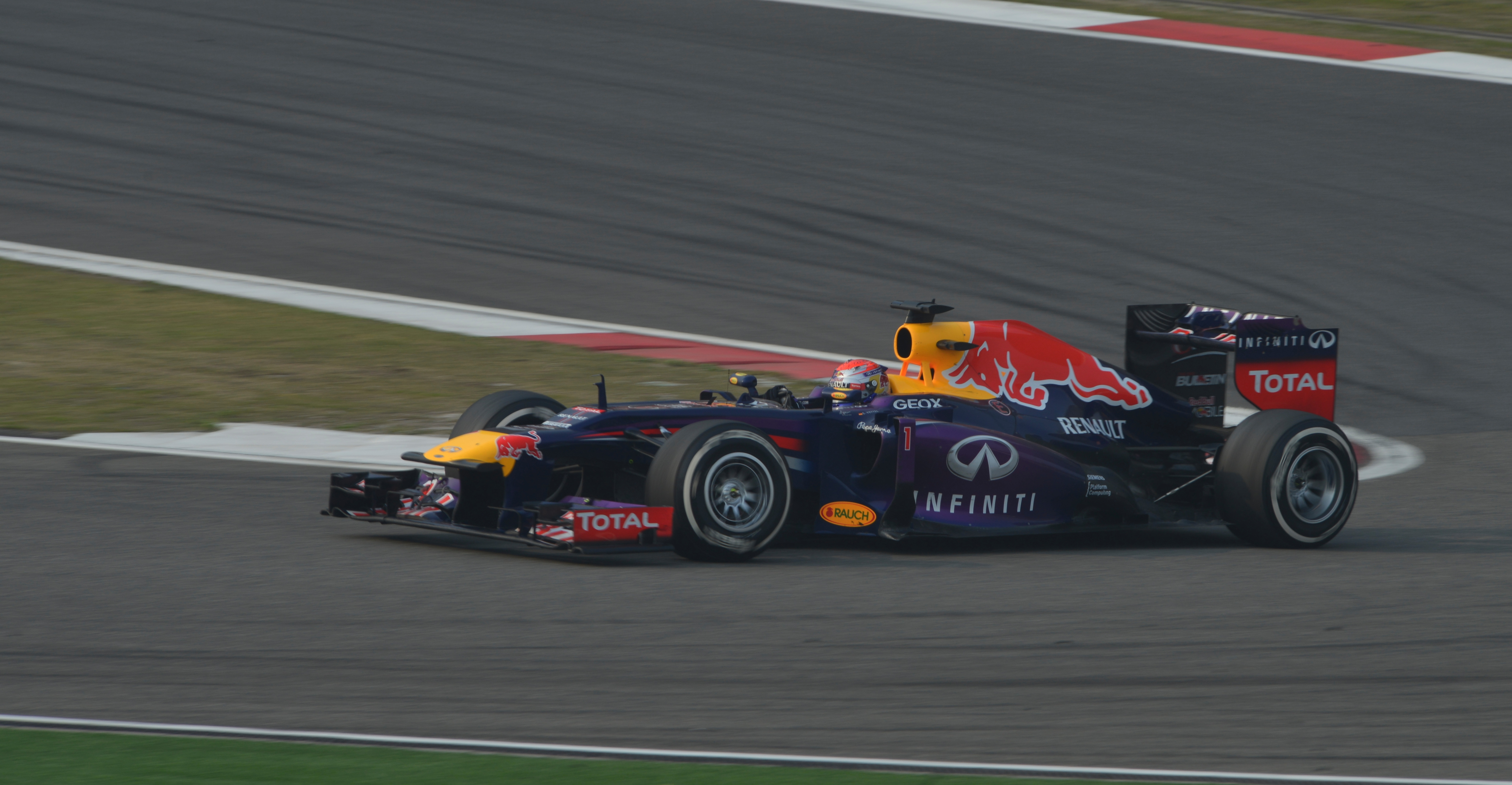 Sebastian Vettel at the 2013 Chinese Grand Prix